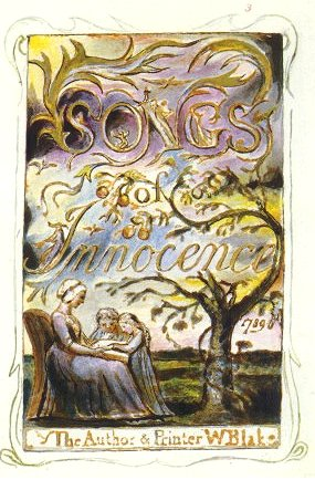 William Blake Songs of Innocence - King's College, Cambridge, 1825. Copy W, Plate 3